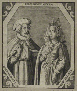 Engraving of Robert de Vere and Philippa de Coucy